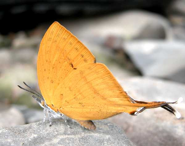 Yamfly (Loxura atymnus) Butterfly Under Side View Taken in Jairampur, Arunachal Pradesh, India